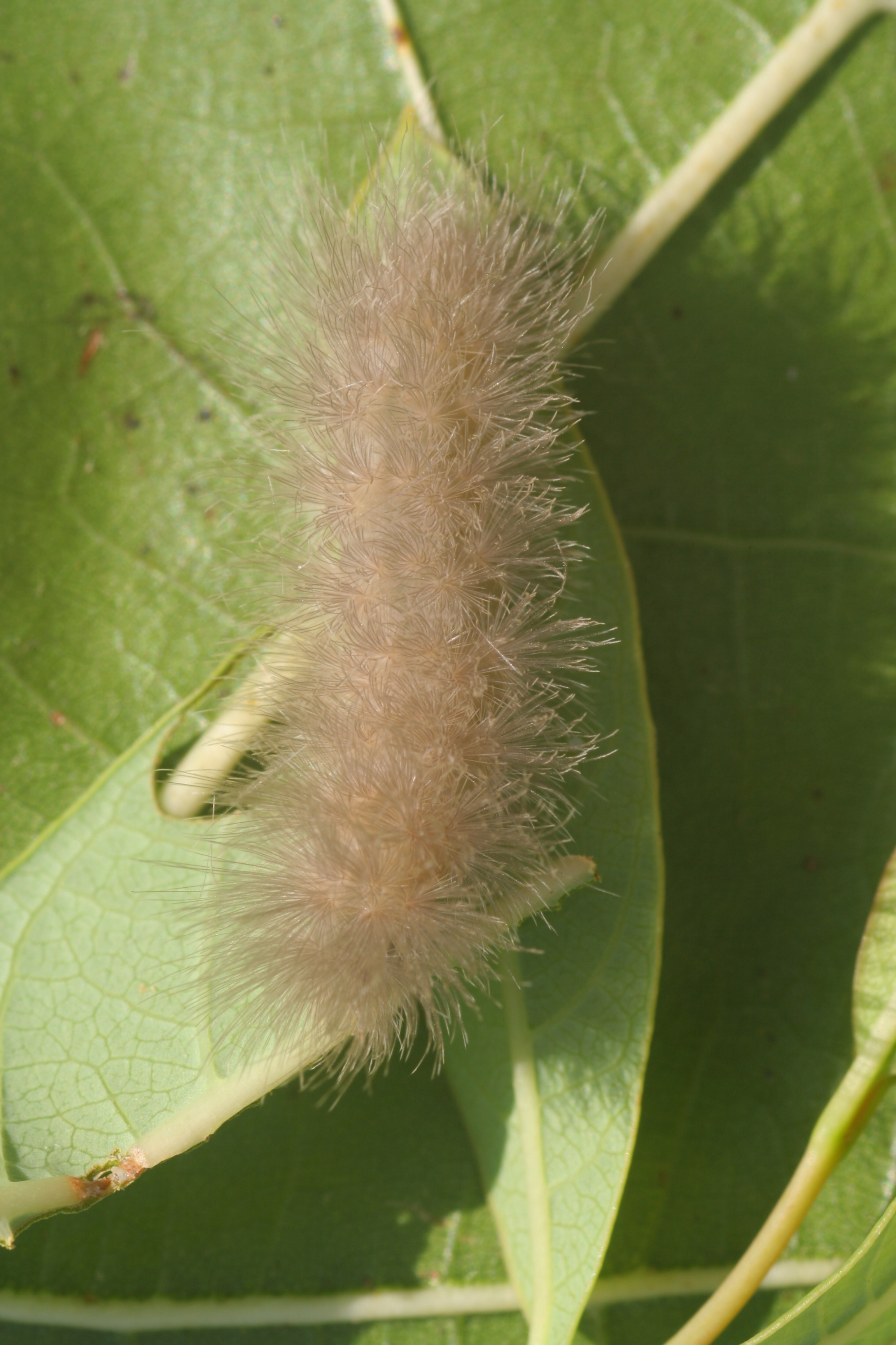 Cycnia tenera, dogbane tiger-moth, on Apocynum cannabinum